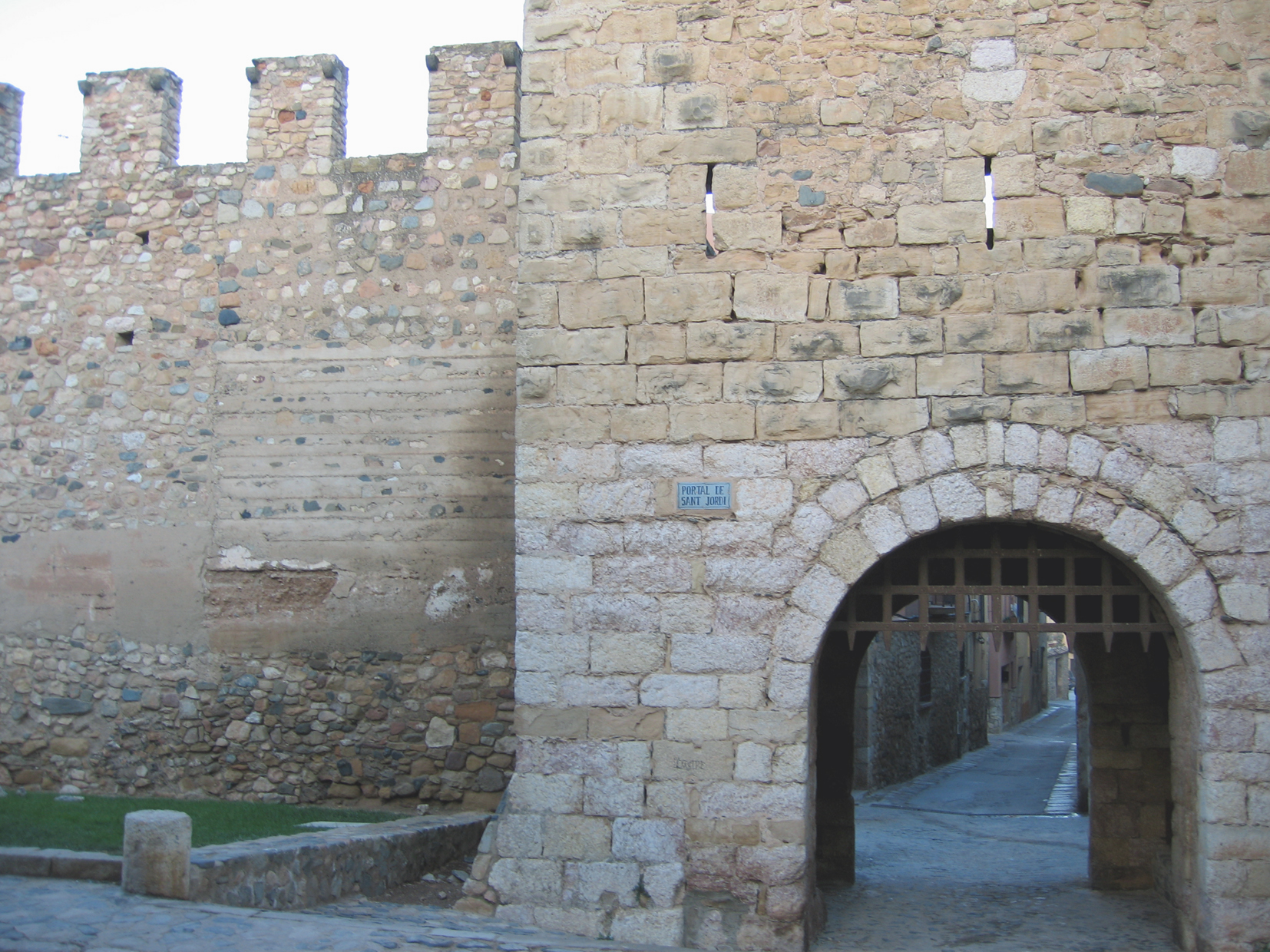 Sant Jordi (Saint George) gate in Montblanc in the province of Tarragona (Catalonia).